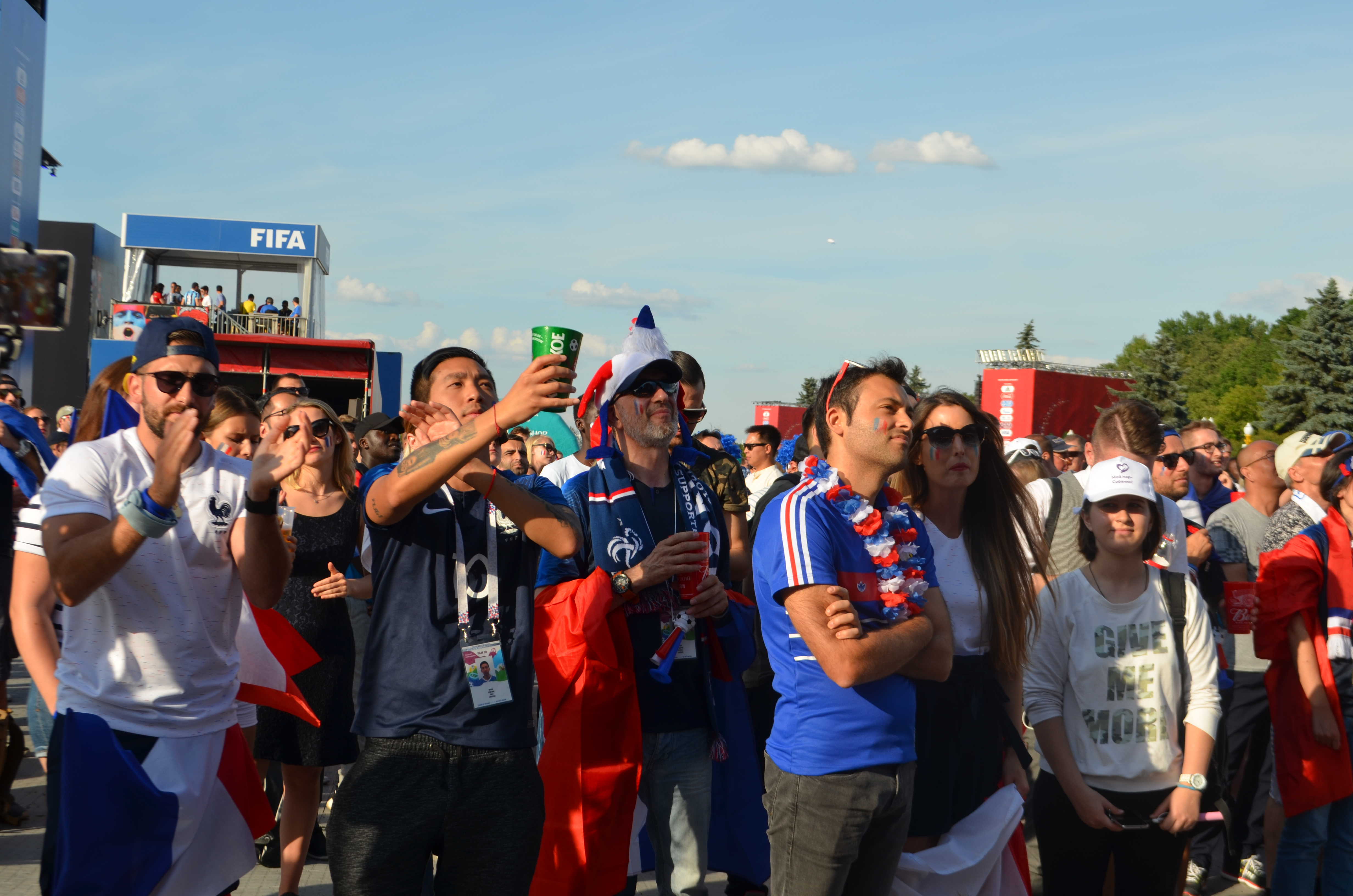 Association football supporters of France national football team at FIFA World Cup 2018 Fan Fest in Moscow. 26 June 2018